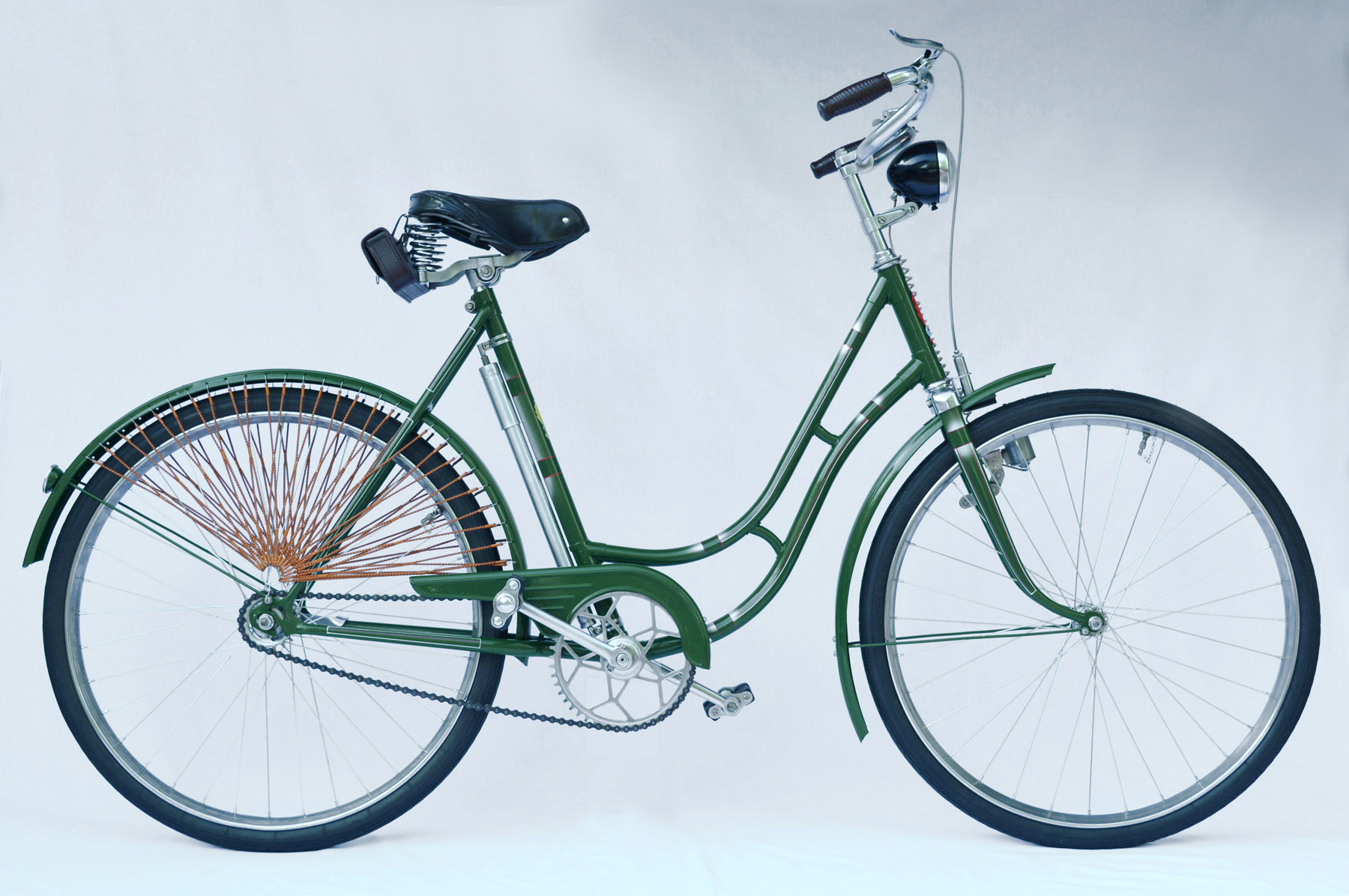 USSR bicycle V-22 (Kharkiv bicycle factory) 1955